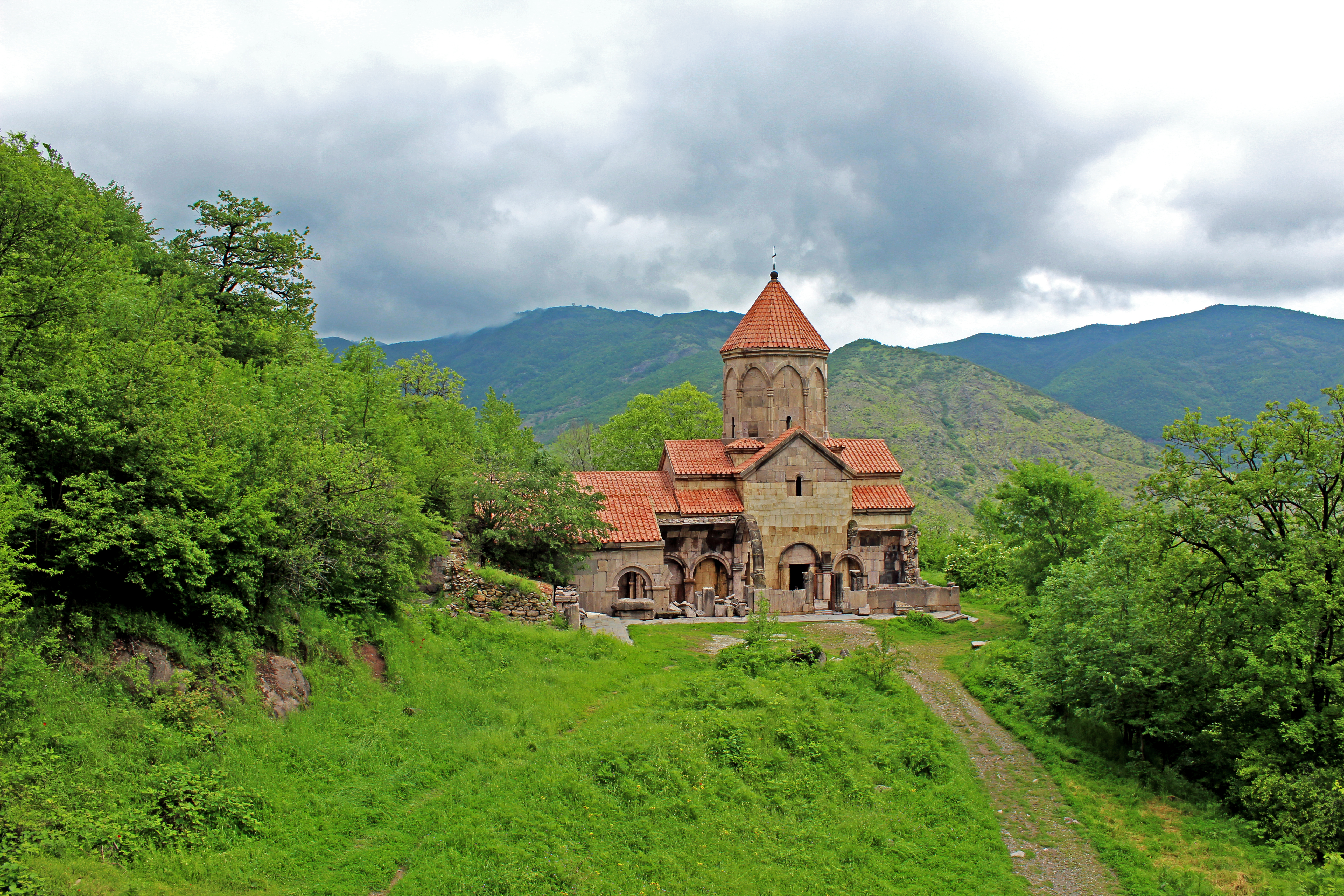 Vahanavank monastery in Syunik Province, Kapan, Armenia 1/9.7